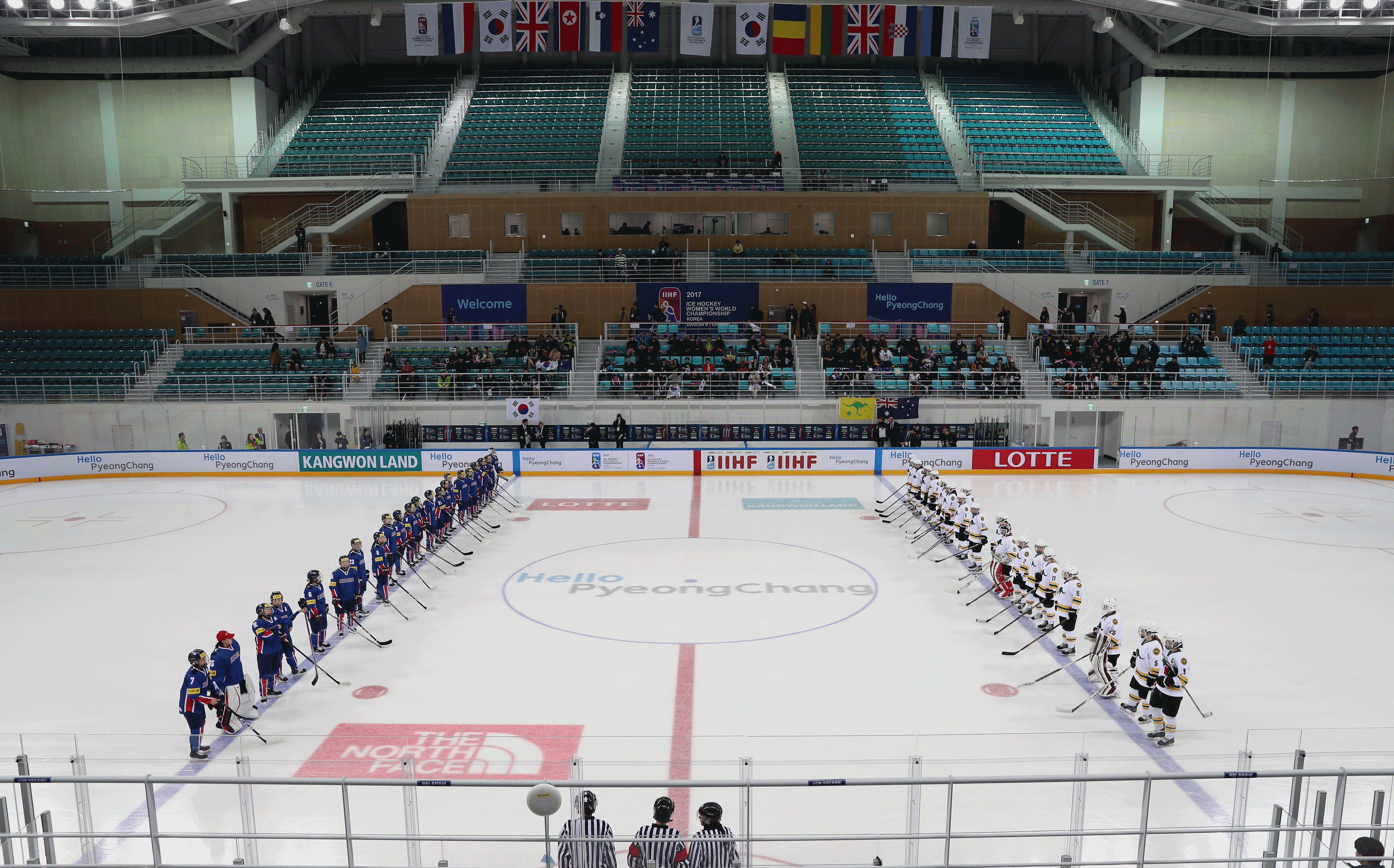 IIHF Ice Hockey Women’s World Championship DIVⅡ Group A Korea vs Australia April 5, 2017 Kwandong Hockey Center, Gangneung-si, Gangwon-do